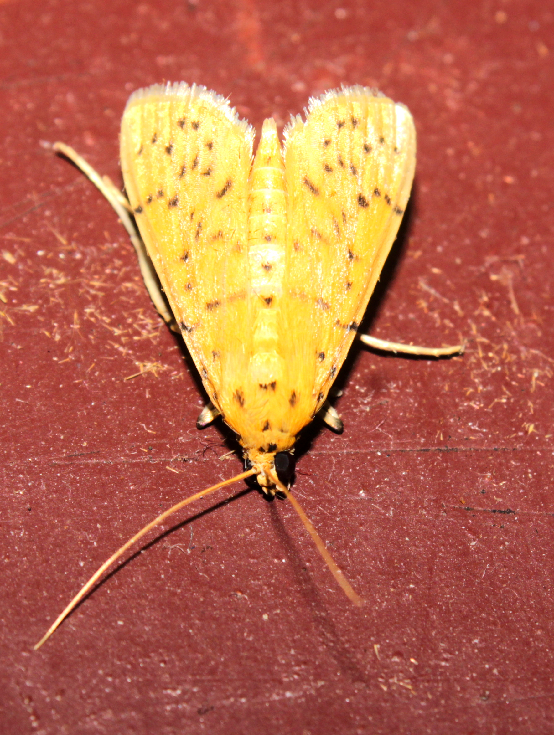 Durian fruit borer moth (Conogethes punctiferalis). Photographed near Thrippunithura, Kerala, India